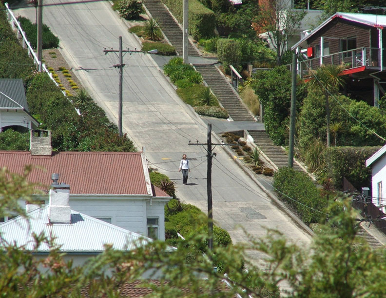 A tourist descends the world's steepest street - Baldwin Street, Dunedin, New Zealand